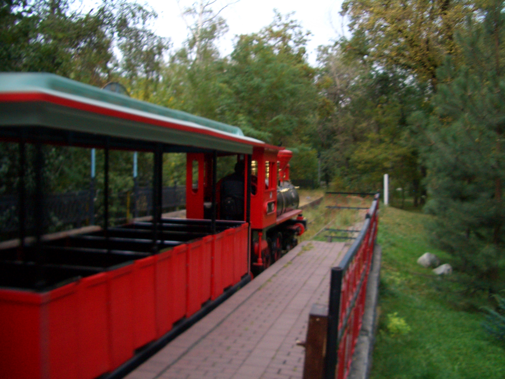 Children's Railway in Almaty's Central Parkt